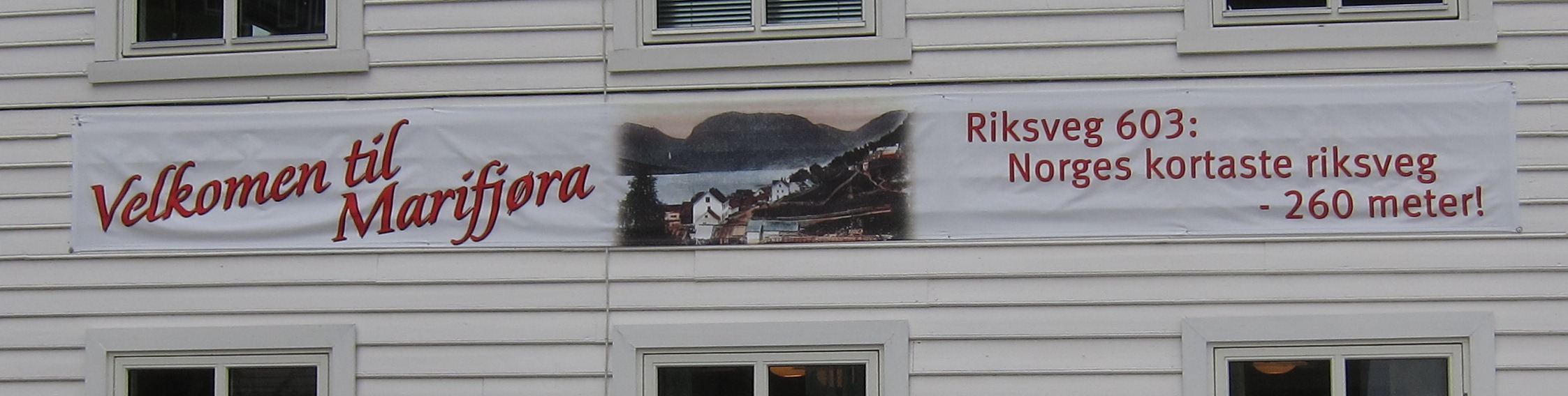 Marifjøra county road 603, Norway's shortest highway (260 meters)